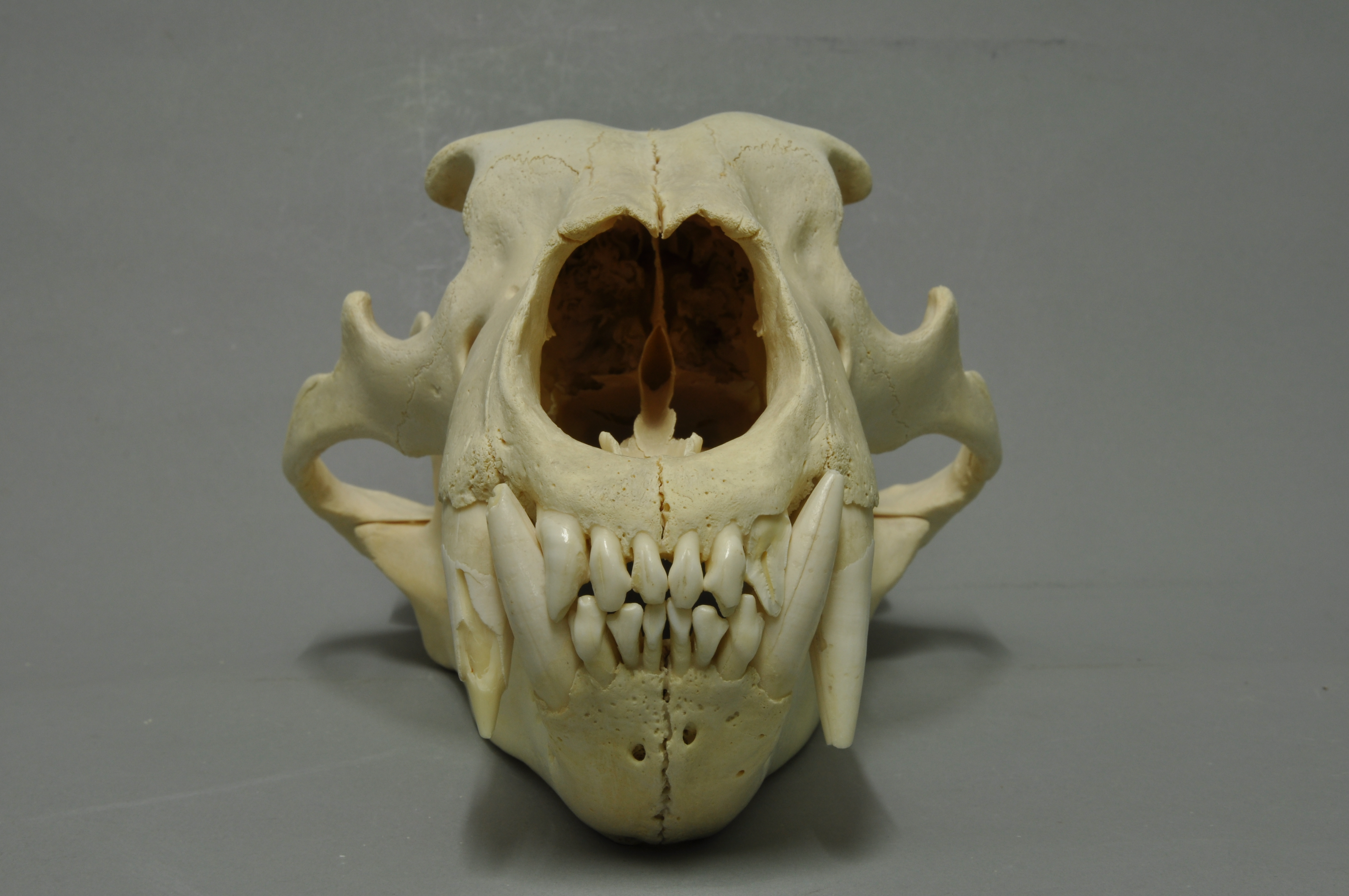 Polar bearUrsus maritimus , skull, Coll. Museum Wiesbaden